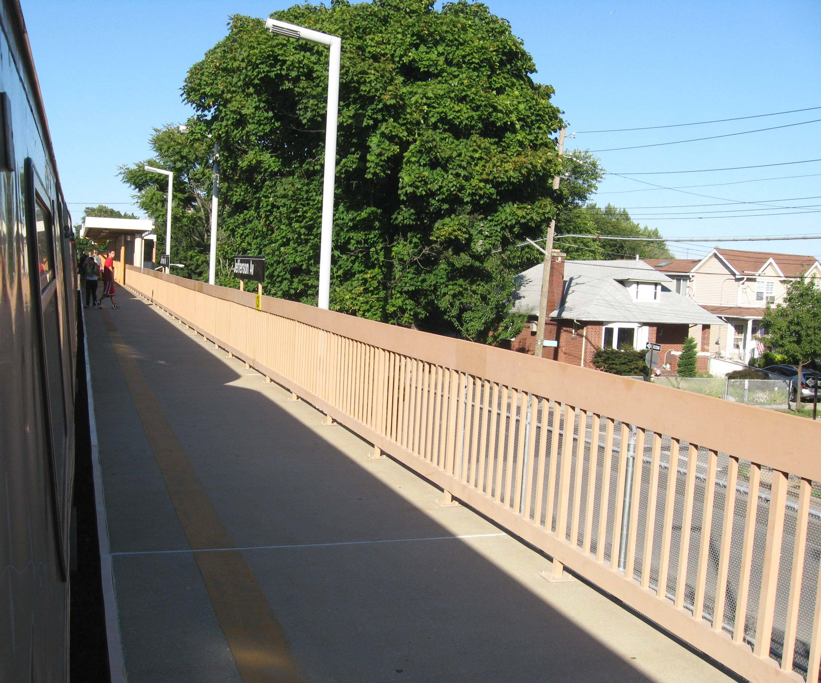 Looking east from northbound car at Jefferson Avenue (Staten Island Railway station) platform on a sunny afternoon